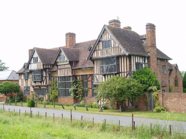 Wick Manor from the church